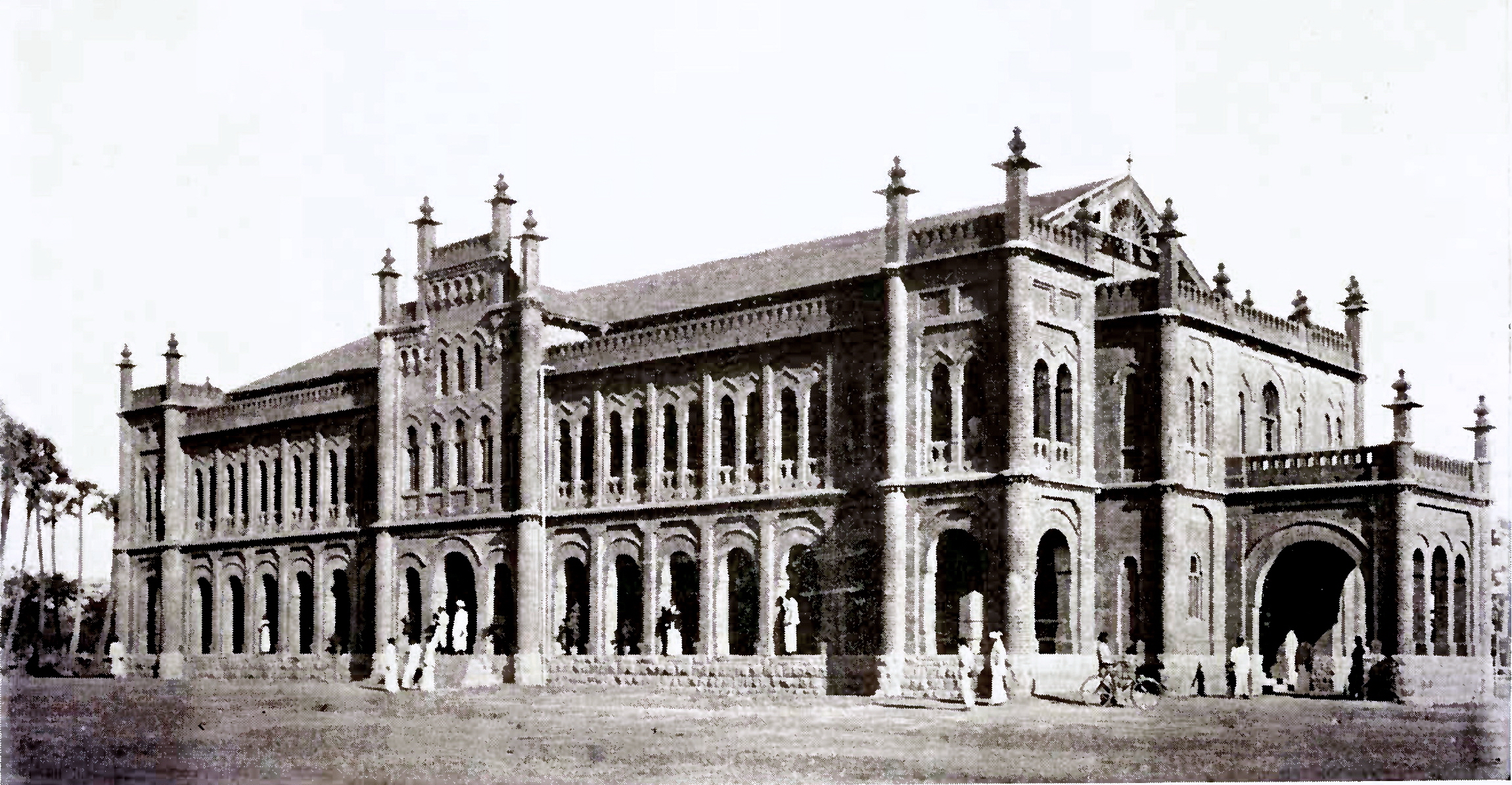 Main Hall of The American College during Pre-Independence era, Madurai